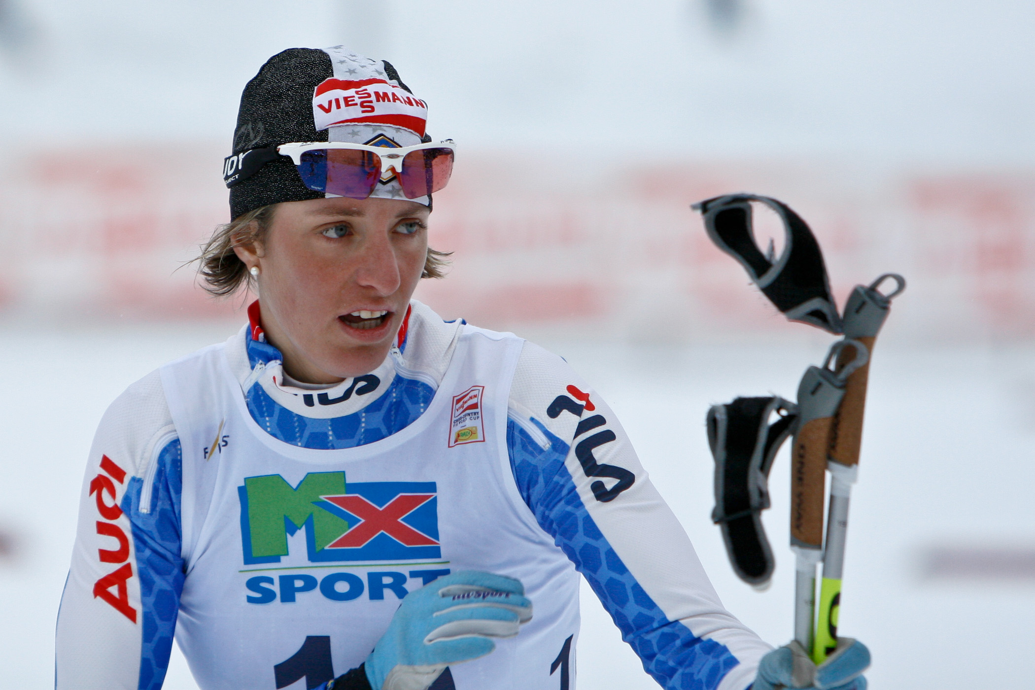 Magda Genuin at the FIS World cup cross country skiing sprint for women 12 March 2009 in Trondheim, Norway. The license on this photo is Creative Commons (CC-BY-SA). If you use this picture, remember to give credit according to the license (